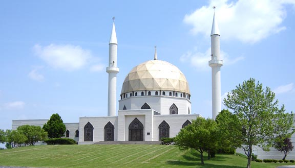 The Islamic Center of Greater Toledo, Ohio, in Perrysburg Township, Wood County, Ohio